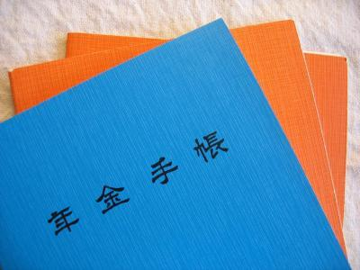 Pension handbooks of Japan